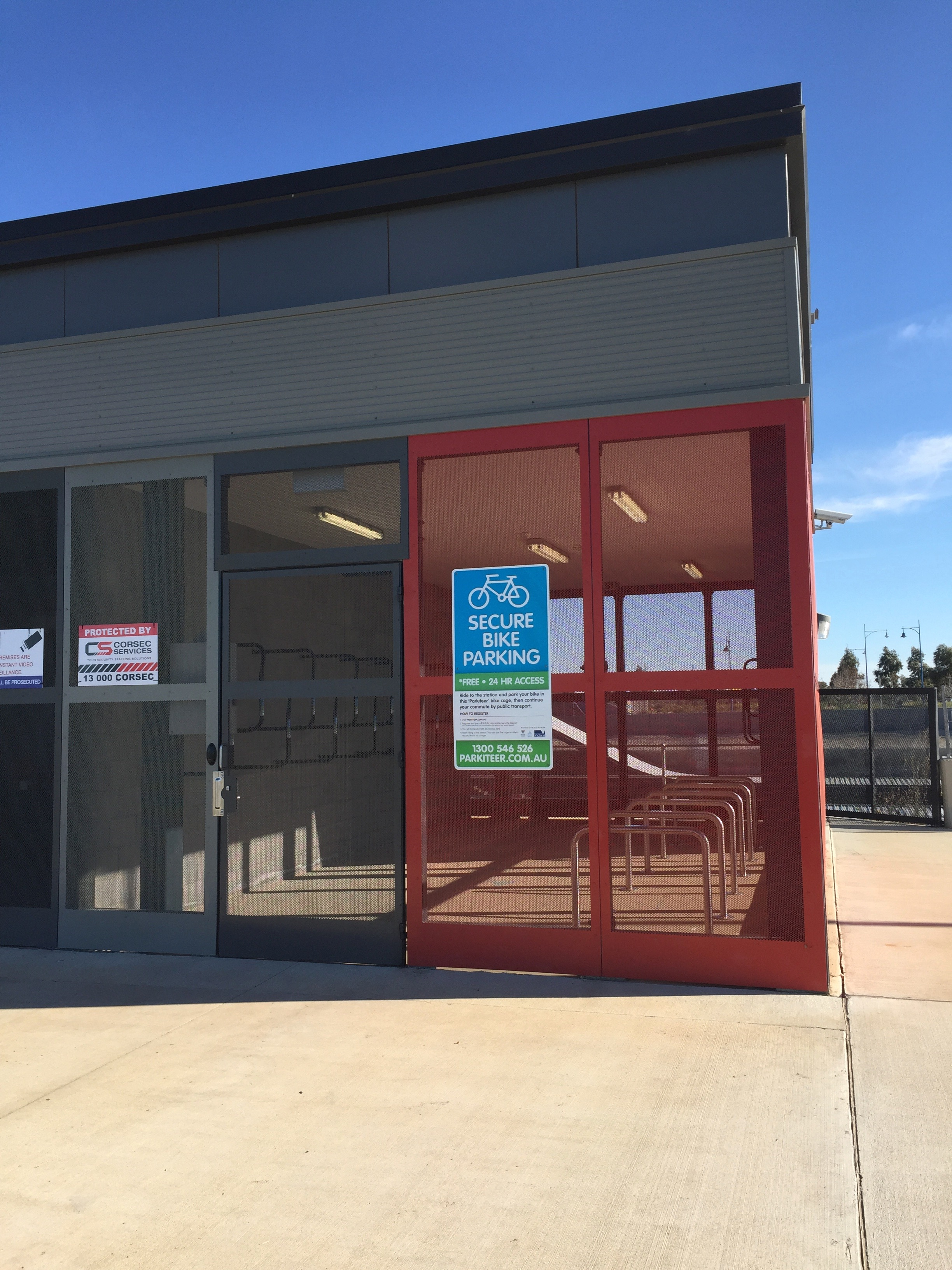 Parkiteer bicycle cage at Wyndham Vale train station, Melbourne.